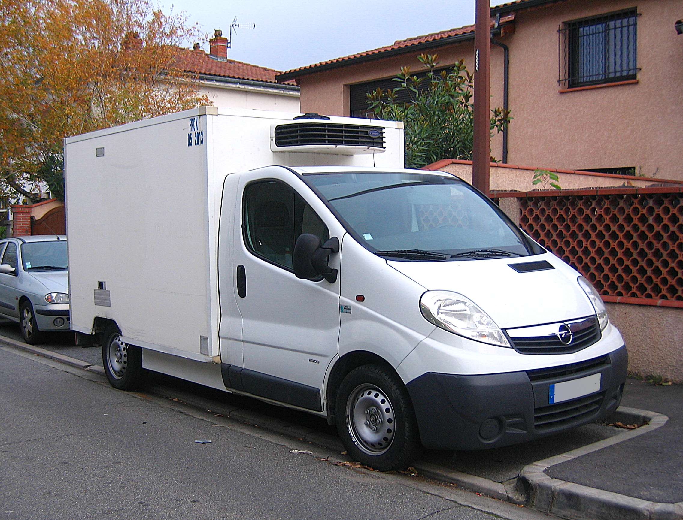 2006-2014 Opel Vivaro.